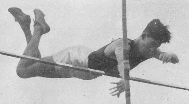 a athlete from Japan,西田修平（Shuhei Nishida）